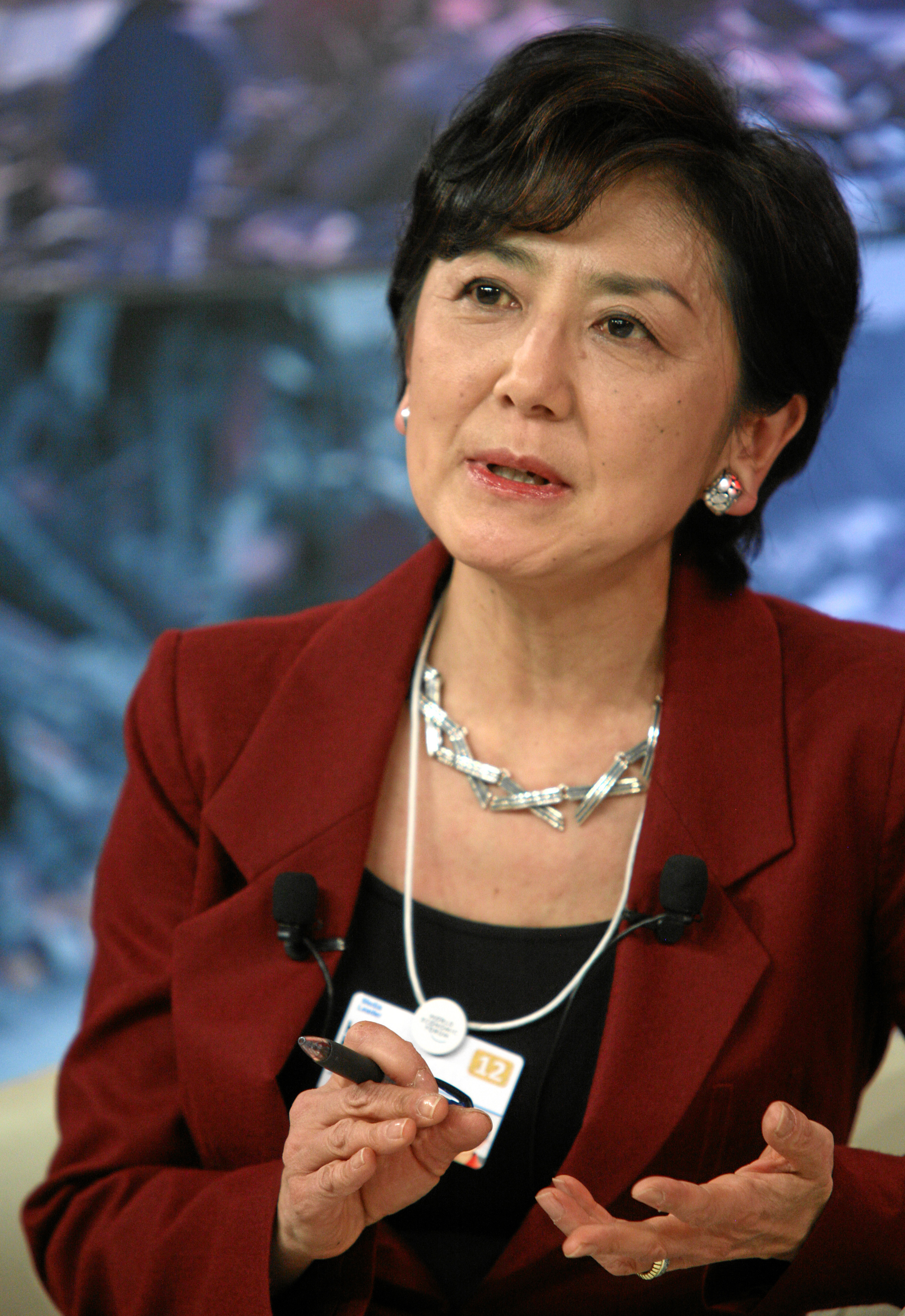 DAVOS/SWITZERLAND, 28JAN12 - Hiroko Kuniya, Anchor and Presenter, Today's Close-Up, NHK (Japan Broadcasting Corporation), Japan is captured during the session 'Tough Choices in a Time of Crisis' at the Annual Meeting 2012 of the World Economic Forum at the congress centre in Davos, Switzerland, January 28, 2012.. . Copyright by World Economic Forum. by Remy Steinegger